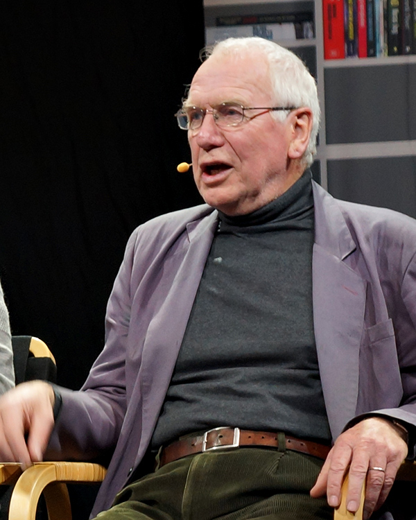 Bent Jensen - Danish historian and writer at the Copenhagen Book Fair "BogForum 2014", Copenhagen, Denmark